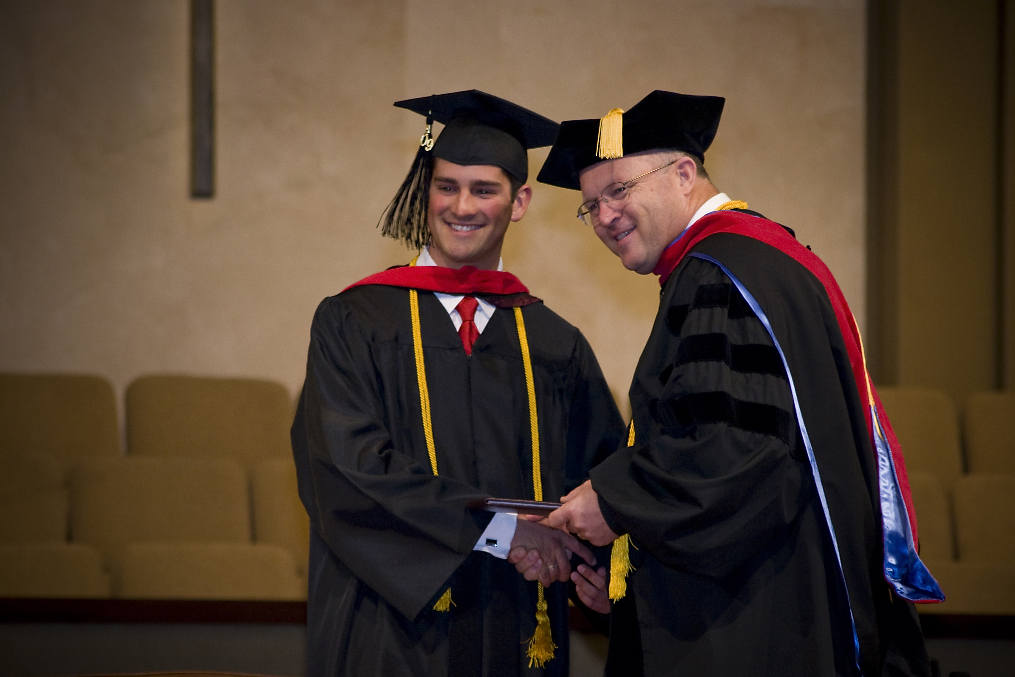 Dr. Paul Chappell with a graduating student in 2009